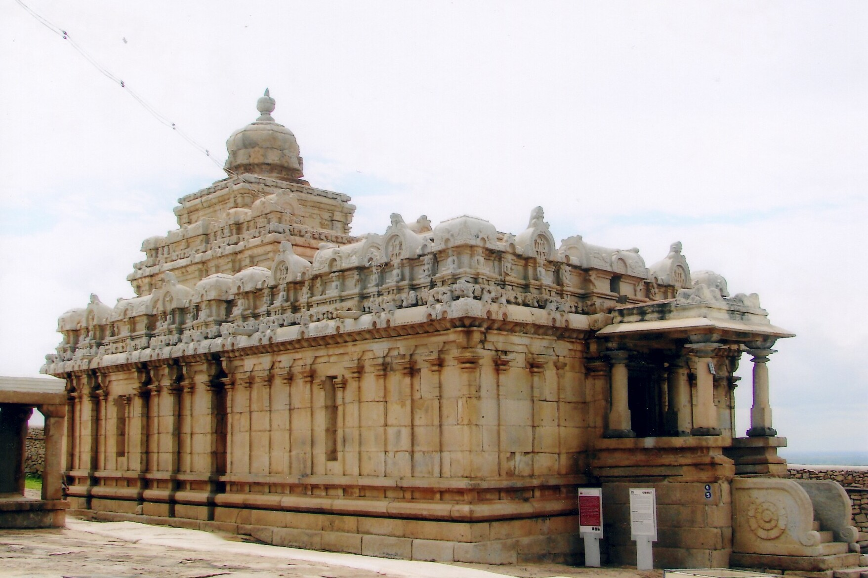 This photograph of the Chavundaraya Basadi built by the Western Ganga Dynasty was taken by self (Dinesh Kannambadi) at Chandragiri hill, Shravanabelagola, Hassan district, Karnataka state